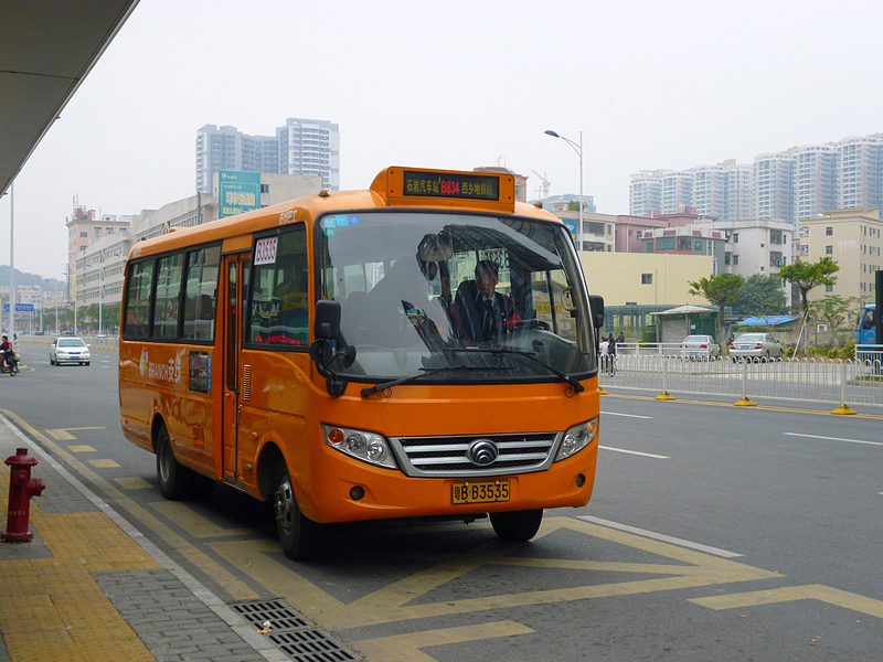 Shenzhen Bus Route B834(728)-ZK6720DE-Branch version